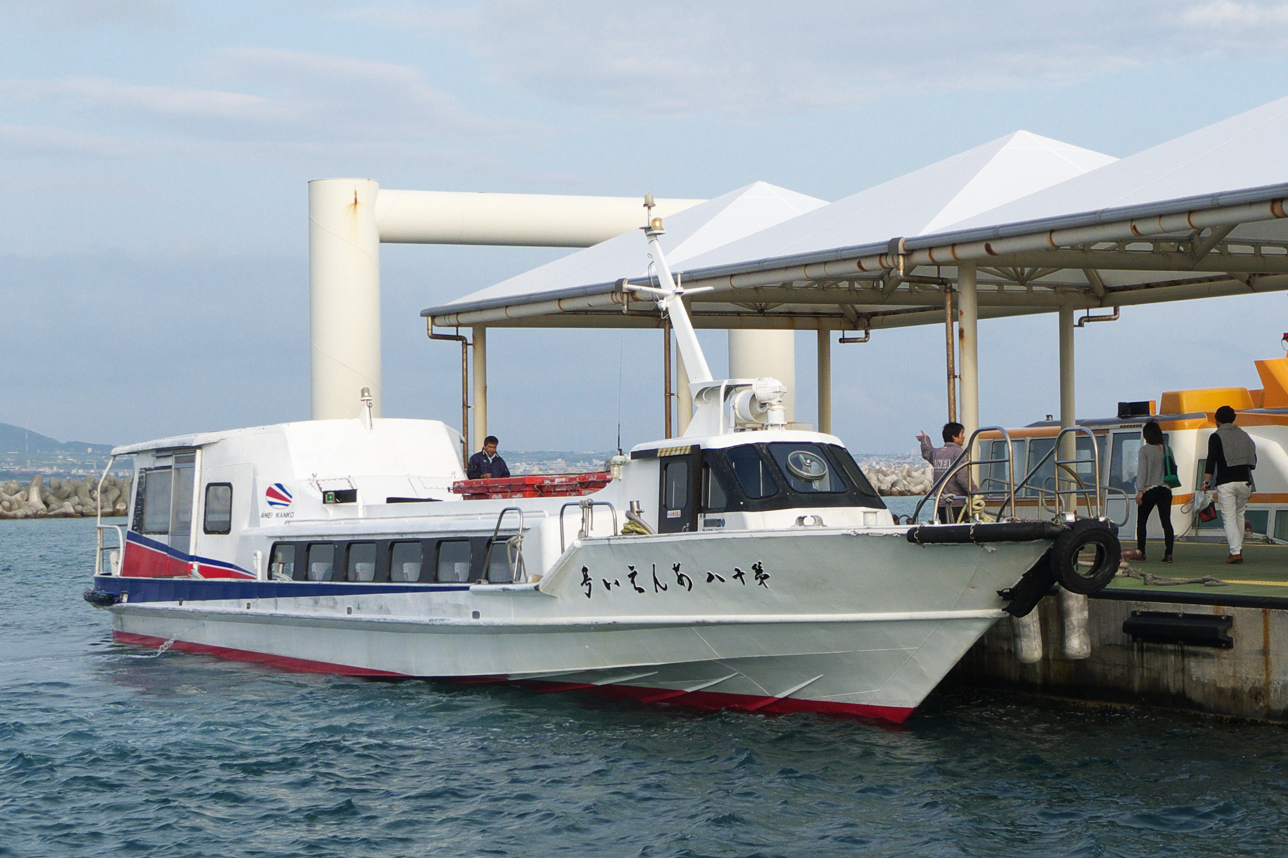 The Anei go No.18 at the Port of Taketomi in Taketomi Town, Okinawa Prefecture, Japan